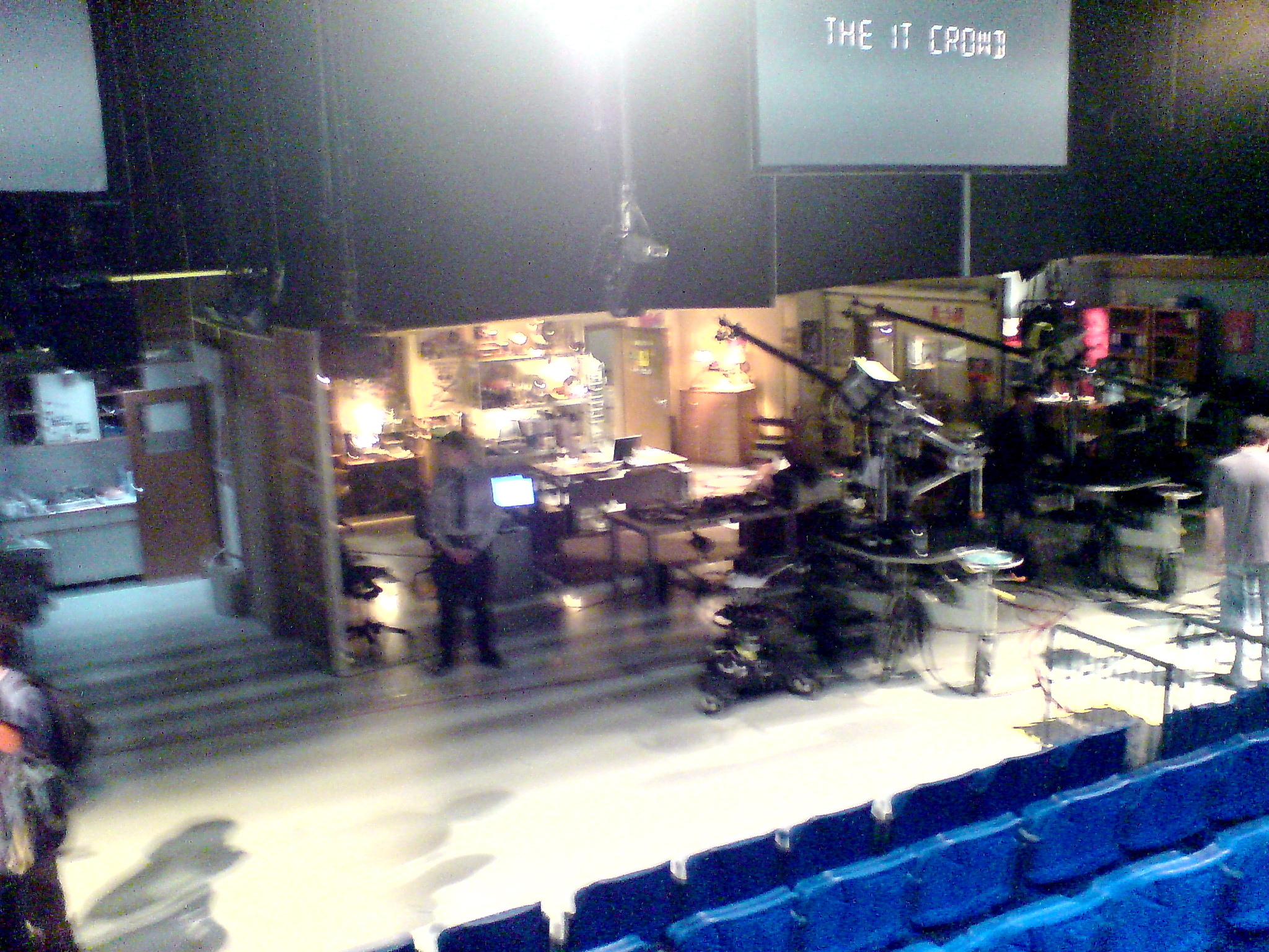 On The IT Crowd Set